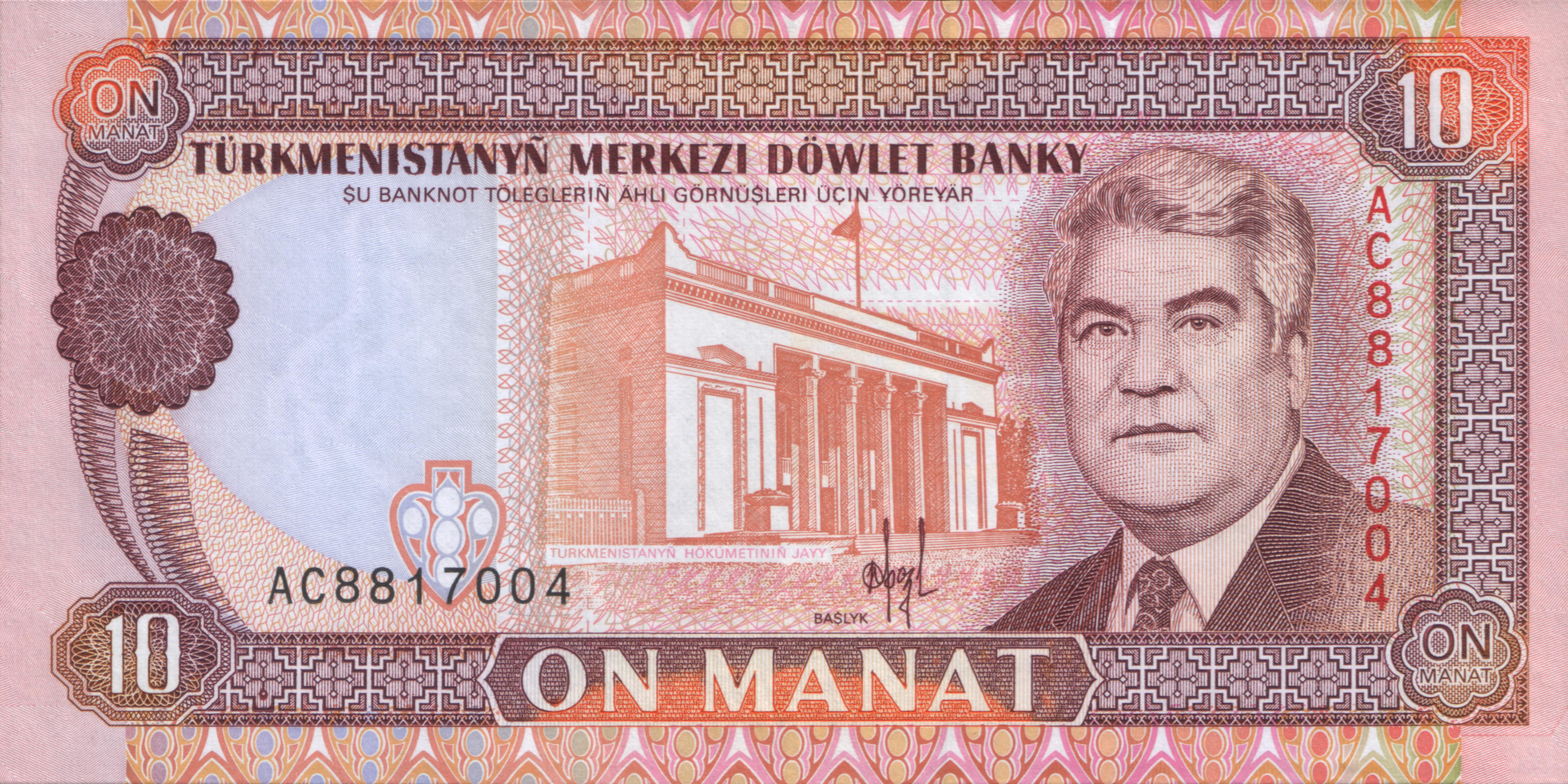 10 manats of Turkmenistan (1993)